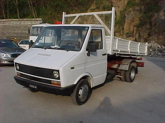 Iveco Daily